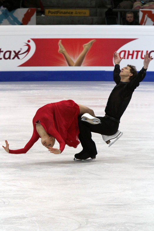 Ekaterina Bobrova / Dmitri Soloviev at the 2011 European Figure Skating Championships